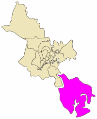 position of Can Gio district in an outline of the metropolitan area of HCMC (Ho Chi Minh City, Vietnam) - ISO code VN-F-HC. Keywords: map, outline, city, Ho Chi Minh City, HCMC, HCM, Can Gio district, huyen Can Gio.